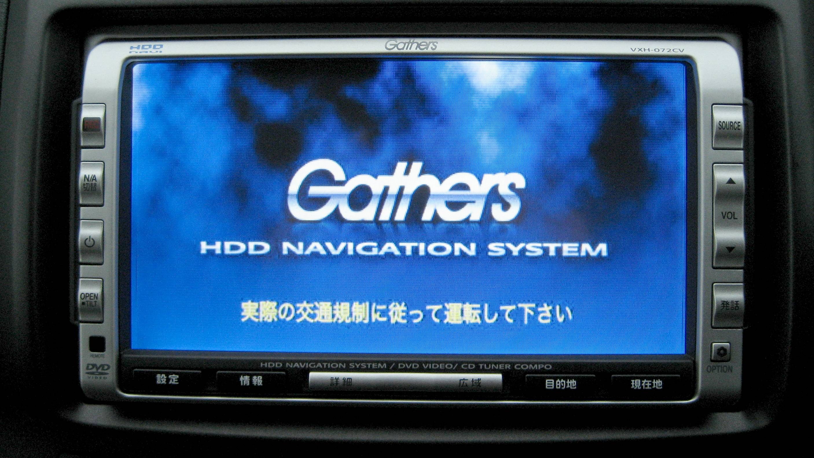 Gathers VXH-072CV is an Automotive navigation system.